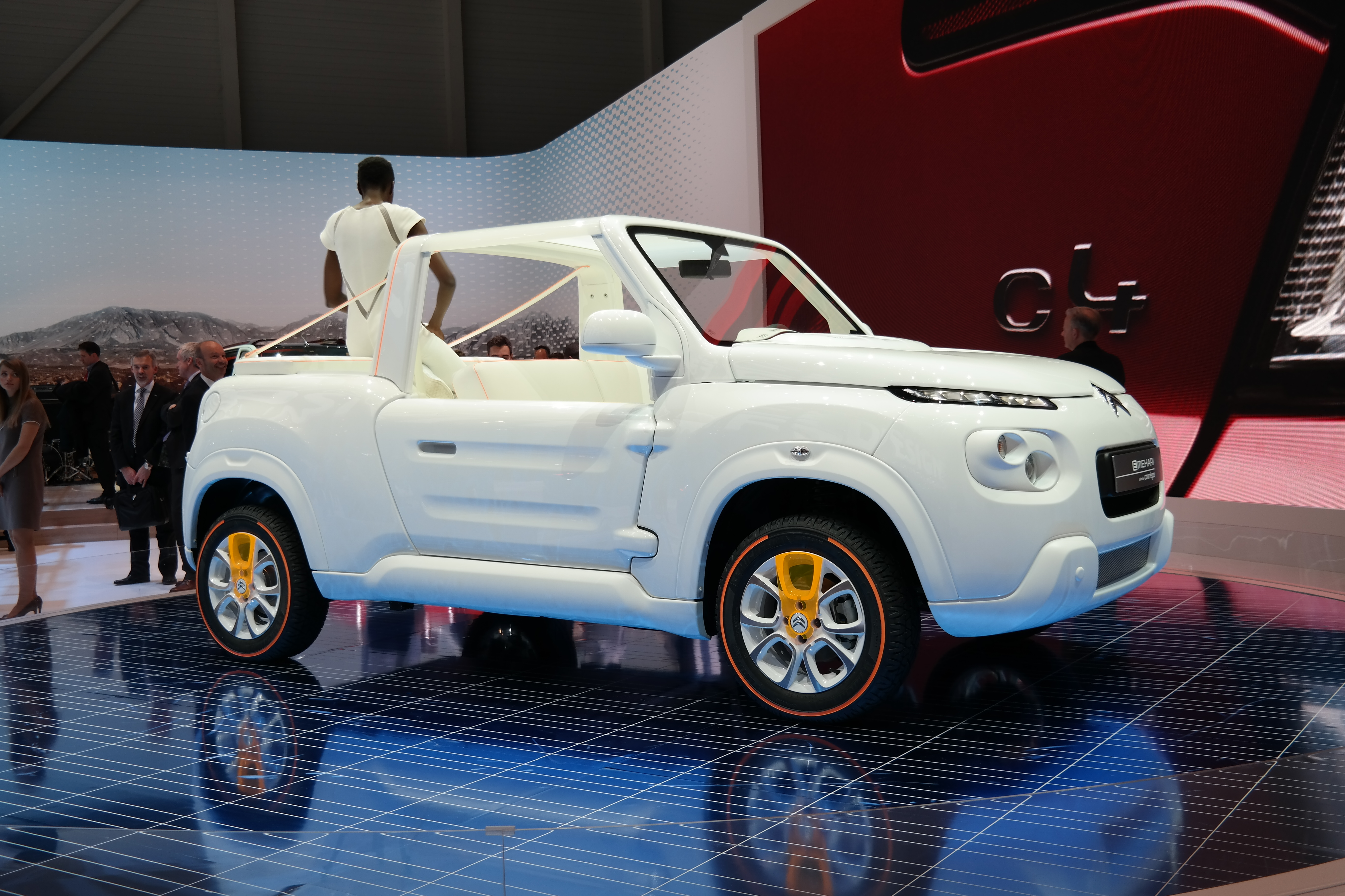 Geneva Motor Show 2016 (photo taken on the first press day)